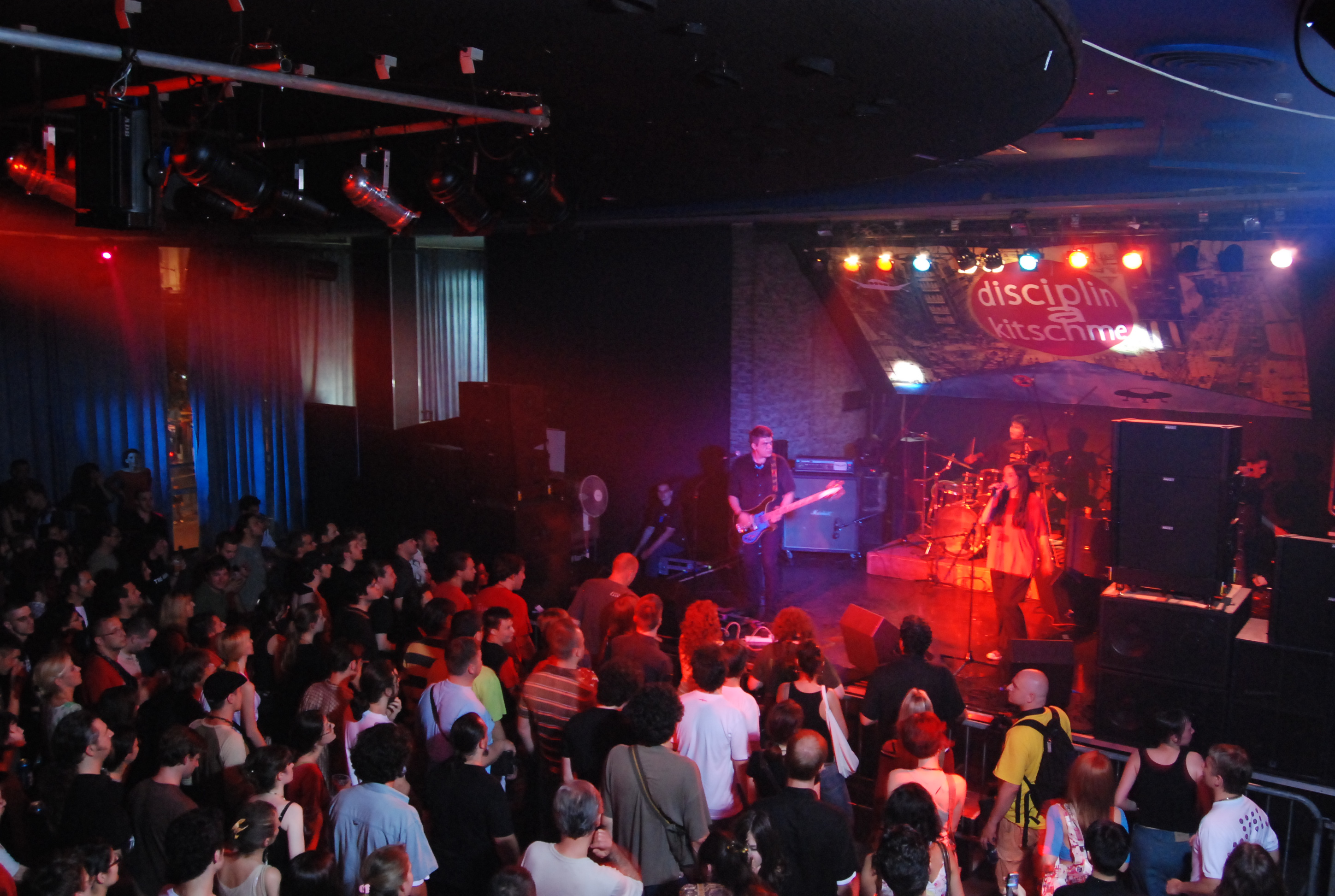 26V07, Belgrade